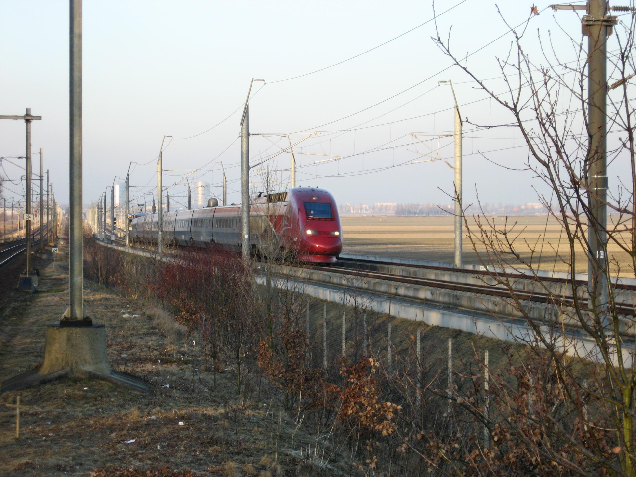 Thalys riding on the highspeed railwayline "HSL Zuid" near Nieuw-Vennep, the Netherlands.